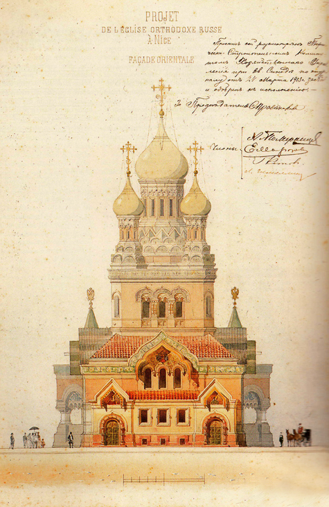 Project of St Nicholas Orthodox Cathedral